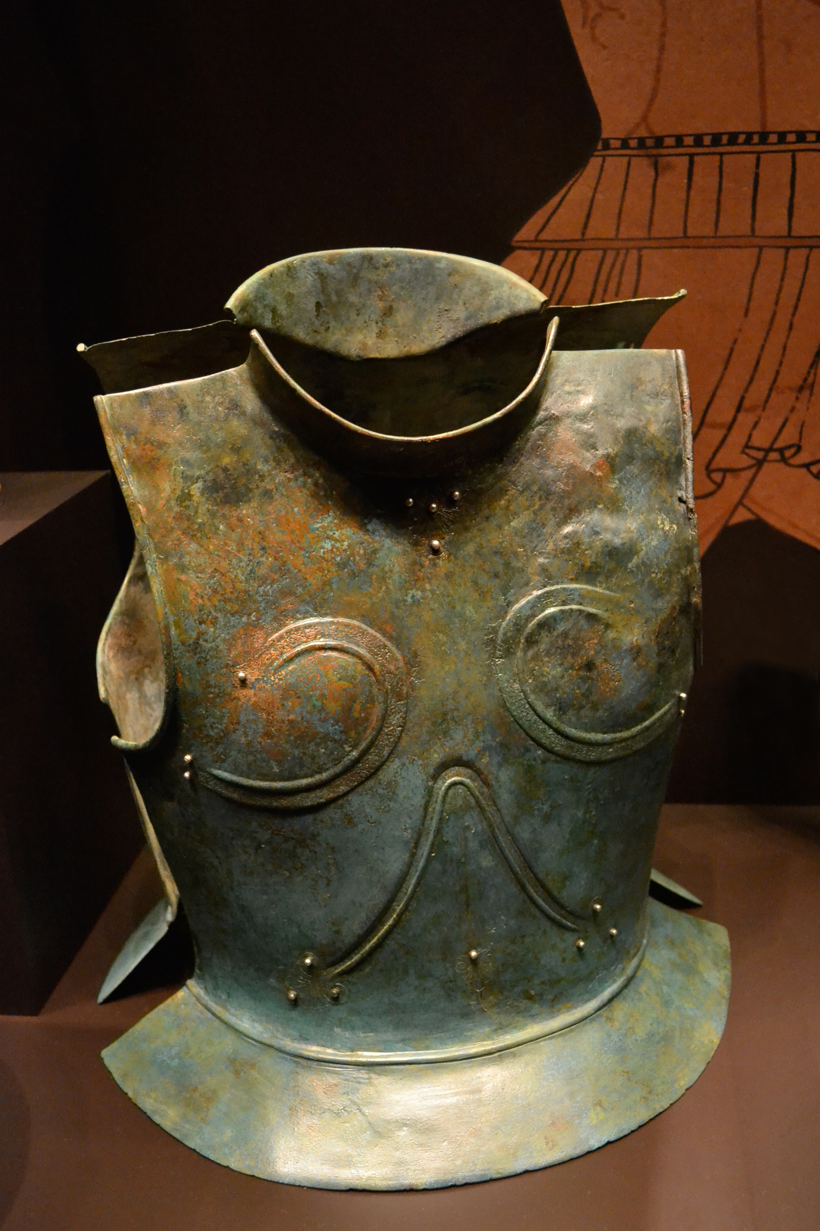 Ancient Greek bronze cuirass of Mainland Greece. 620-580 BC. National Archaeological Museum of Spain.